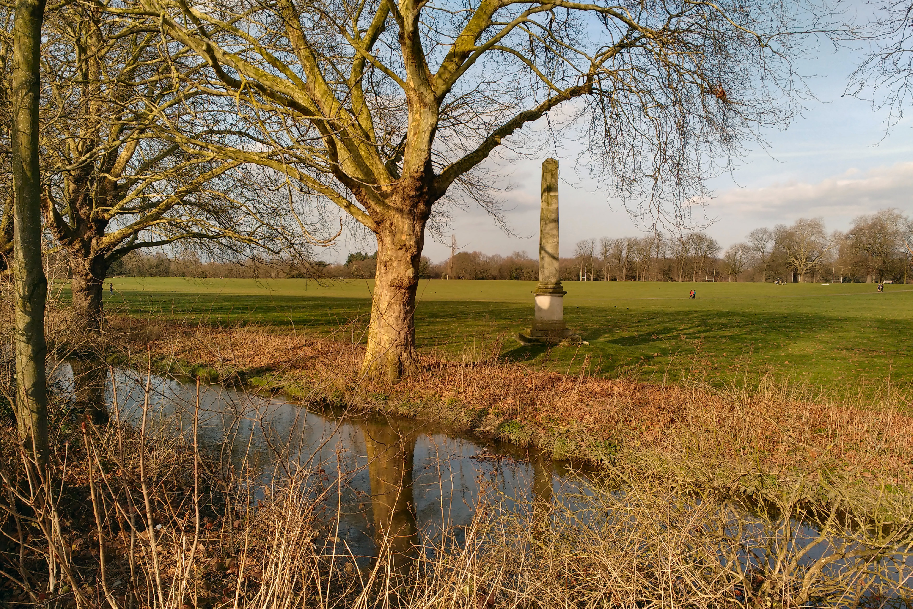 Old Deer Park, Richmond. One of the pair of obelisks by the Thames, looking towards the Observatory.